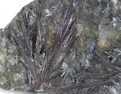 Kermesite Locality: Pezinok, Malé Karpaty Mts, Bratislava Region, Slovakia (Locality at ) Size: 7.8 x 5.8 x 2.9 cm. An excellent and rich specimen of radiating sprays of flat-lying, highly lustrous, acicular, deep wine-red kermesite crystals on massive sulfide matrix from a classic locale - Pezinok, Slovakia. The crystals reach 4.0 cm on this fine piece, making for superb material for the species and locality. Ex. Christian Rewitzer Collection.